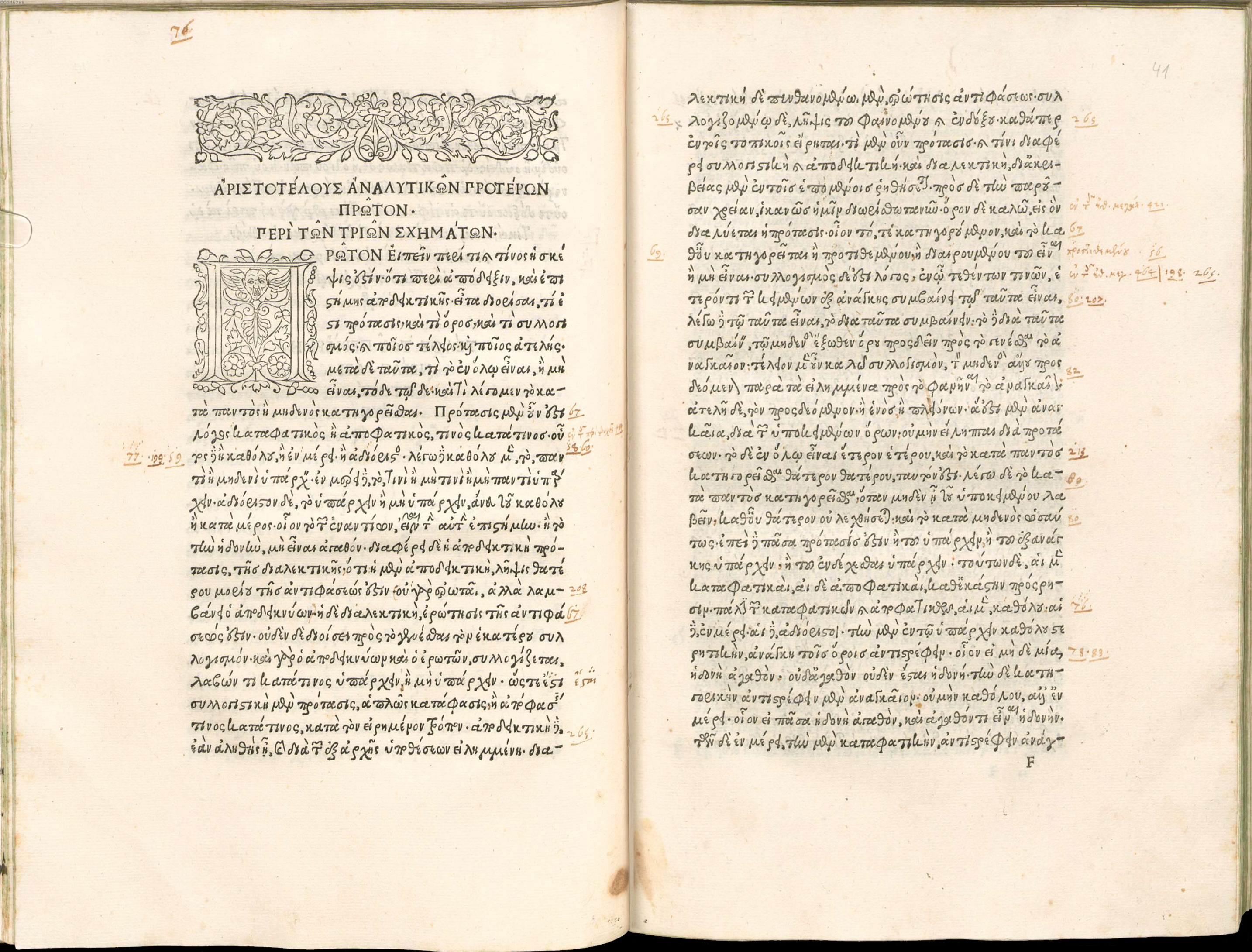 Page-spread from the Aristoteles "Opera" printed by Aldus Manutius about 1495—1498. Copy of the Bayerische Staatsbibliothek.